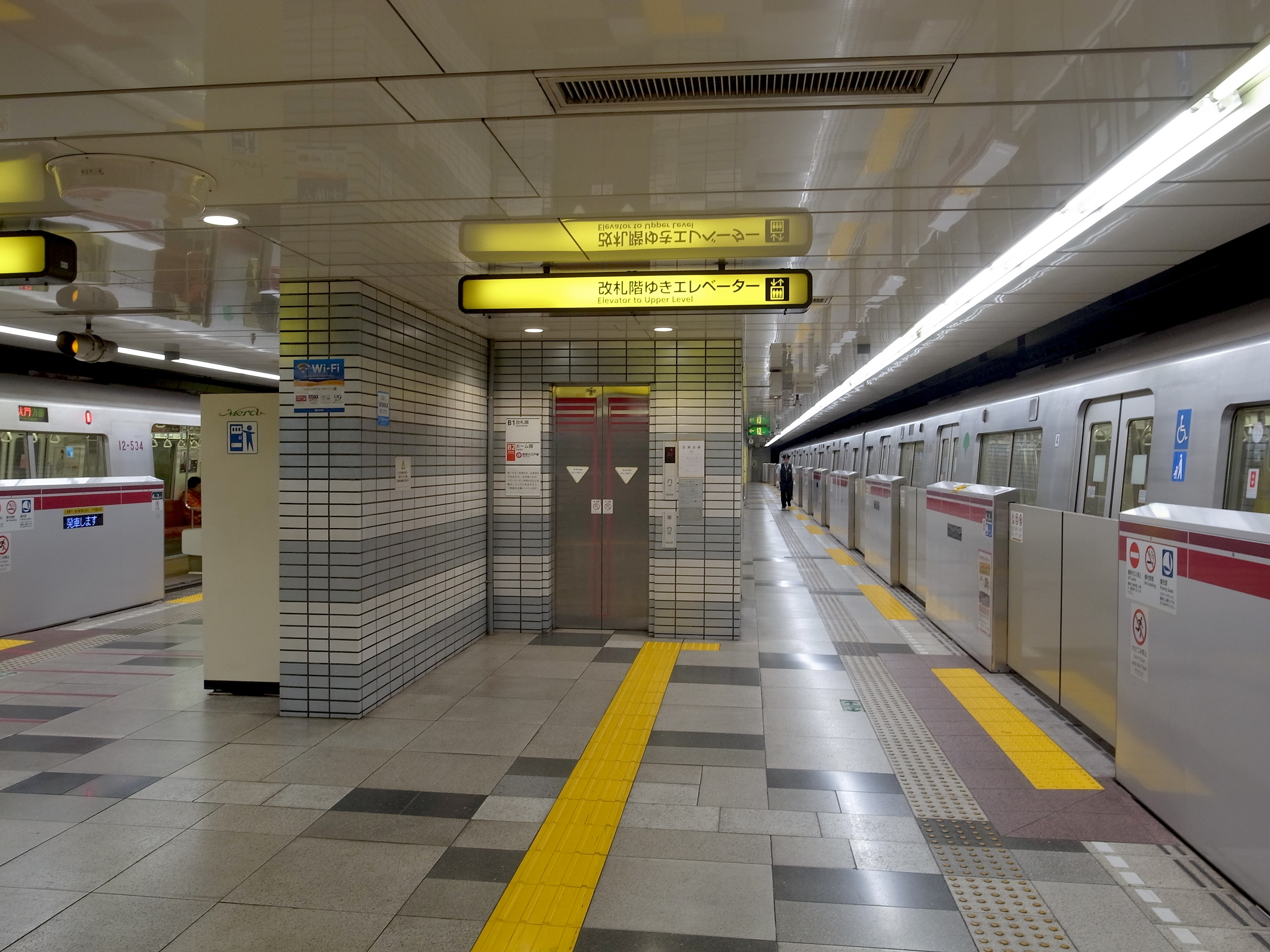 Hikarigaoka Station (光が丘駅 Hikarigaoka-eki) is a subway station on the Toei Ōedo Line in Nerima, Tokyo, Japan, operated by Tokyo subway operator Toei Subway. This is the station platforms.